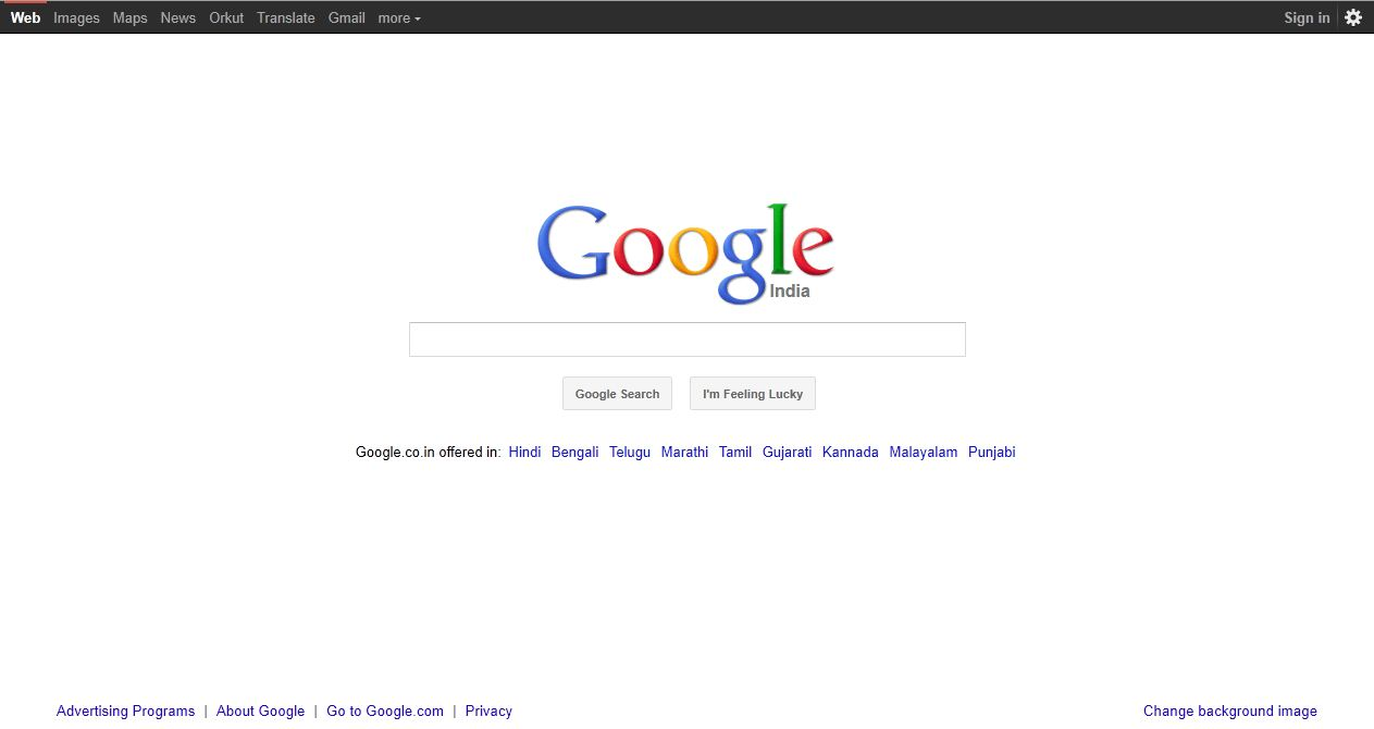 Google New Task Bar and other changes in look